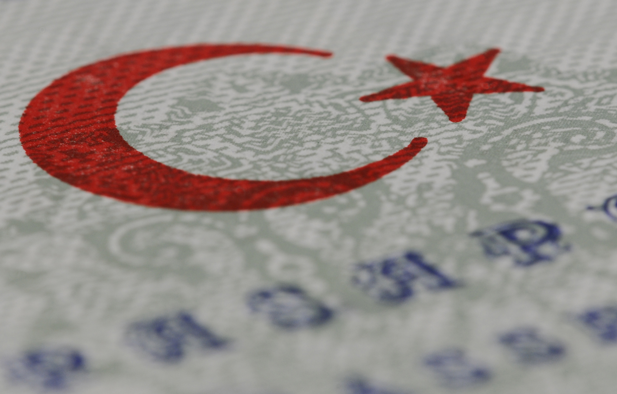 turkish passport detail